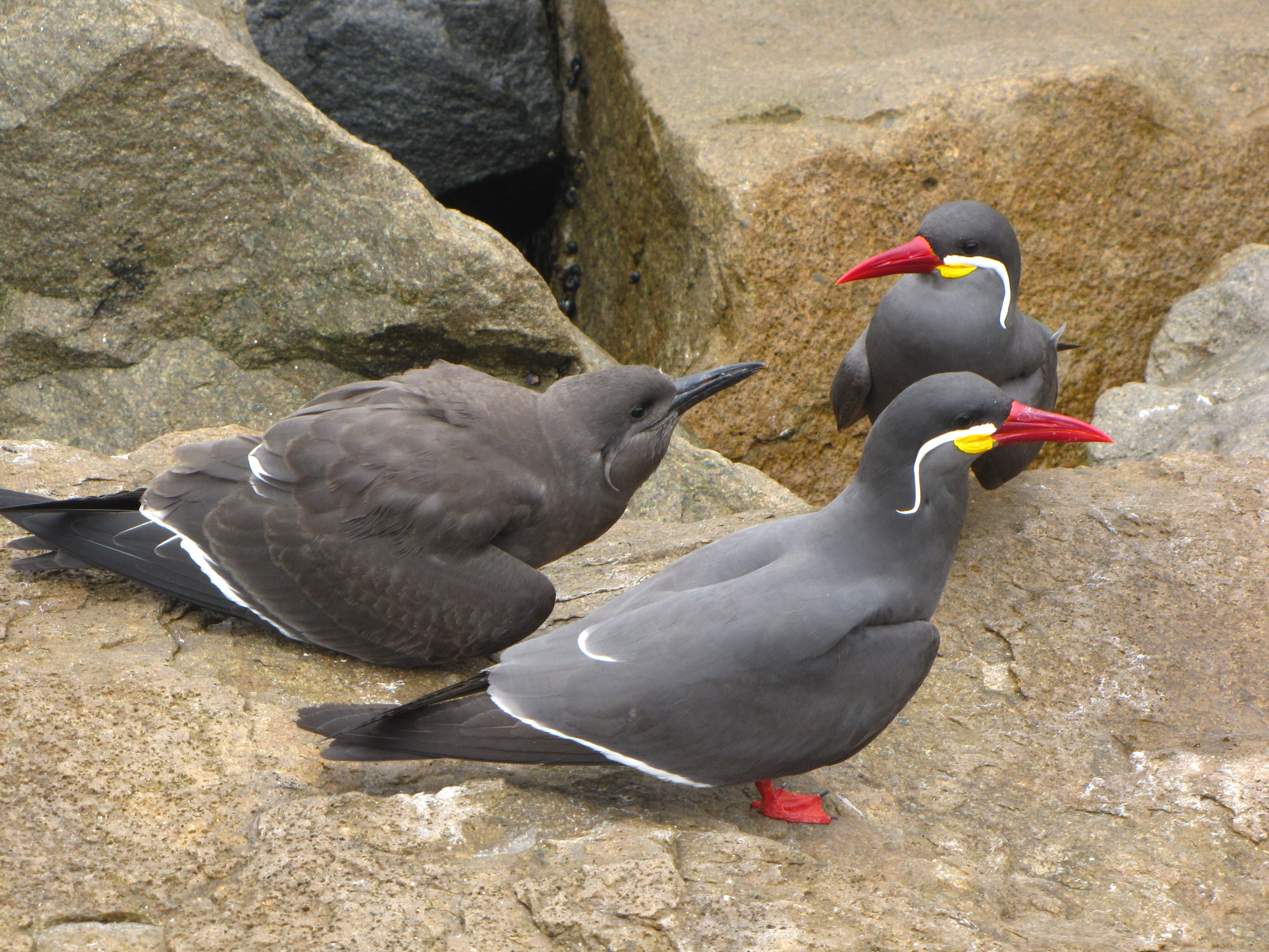 A family of Inca Terns in Lima, Peru.